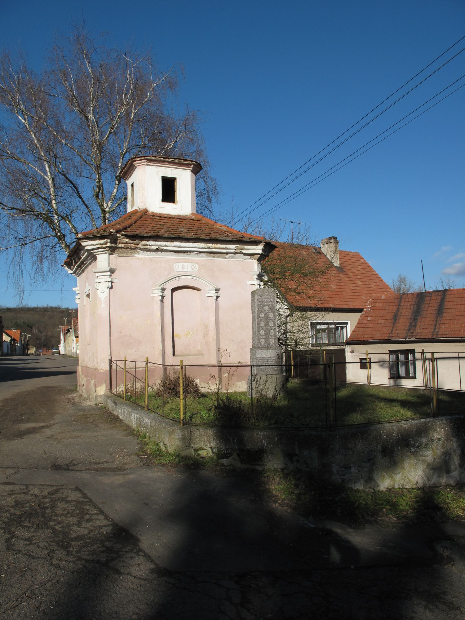 Chapel and memorial in Břežany nad Ohří, Czech Republic